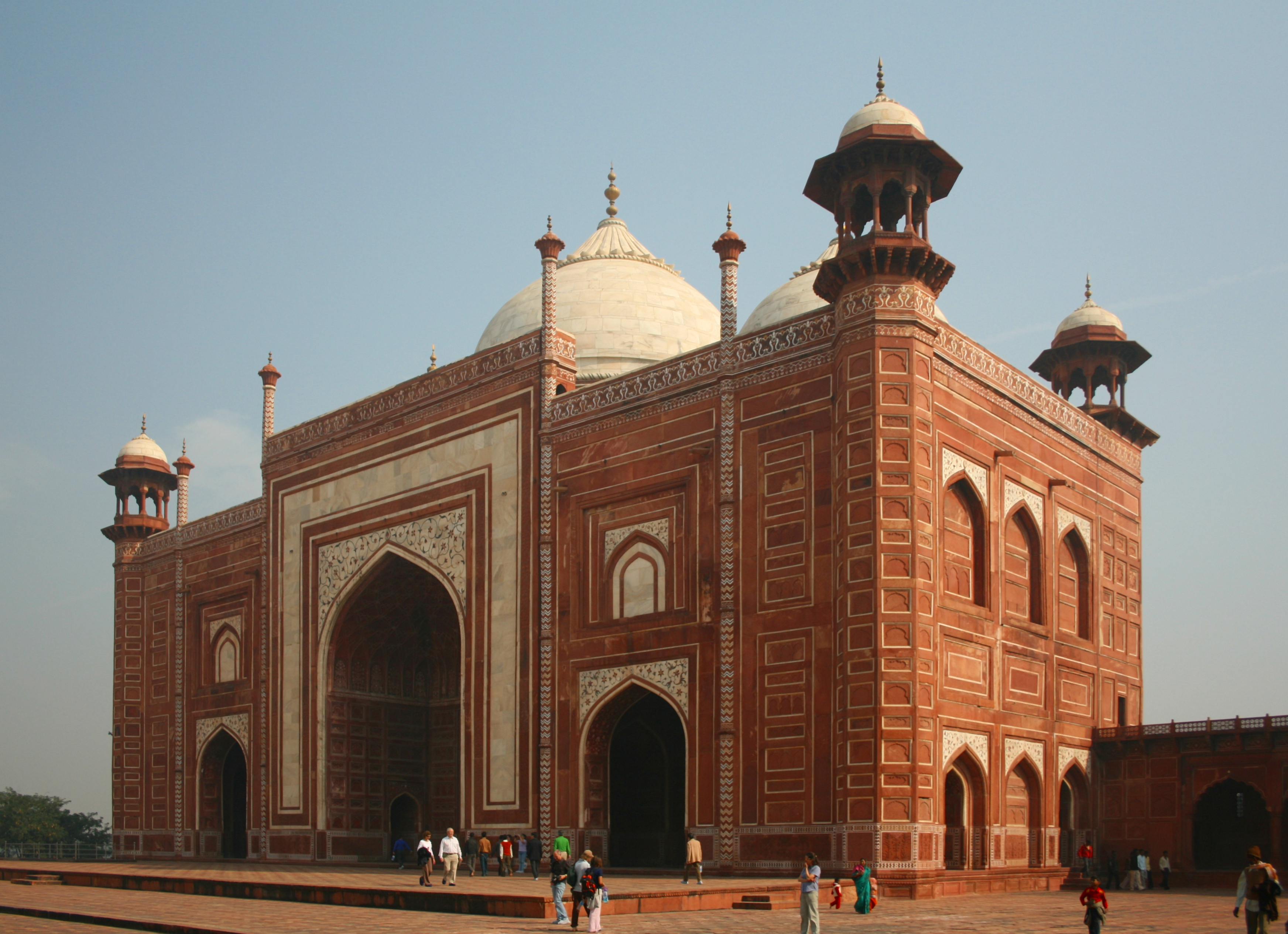 Taj Mahal, Agra, India